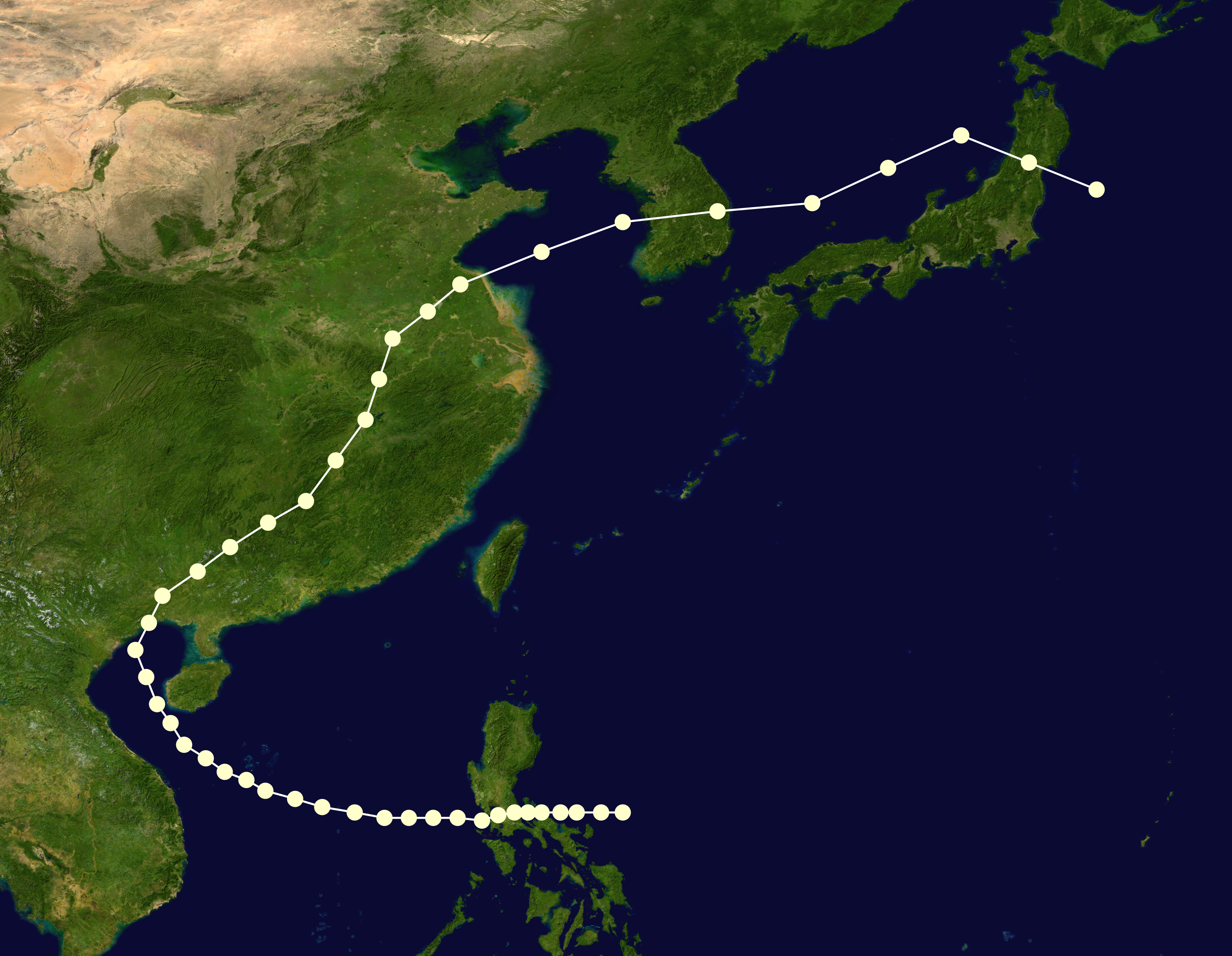 Track map of 1881 Haiphong Typhoon of the 1881 Pacific typhoon season. The points show the location of the storm at 6-hour intervals. The colour represents the storm's maximum sustained wind speeds as classified in the Saffir–Simpson scale (see below), and the shape of the data points represent the nature of the storm, according to the legend below. Saffir–Simpson scale Tropical depression≤38 mph≤62 km/h Category 3111–129 mph178–208 km/h Tropical storm39–73 mph63–118 km/h Category 4130–156 mph209–251 km/h Category 174–95 mph119–153 km/h Category 5≥157 mph≥252 km/h Category 296–110 mph154–177 km/h Unknown Storm type Tropical cyclone Subtropical cyclone Extratropical cyclone / Remnant low / Tropical disturbance / Monsoon depression